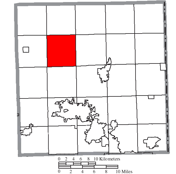 Map of the municipal and township boundaries of Trumbull County, Ohio, United States, as of the 2000 census, with the location of Bristol Township highlighted. Township borders are shown only in unincorporated areas in order to differentiate incorporated and unincorporated areas more clearly.